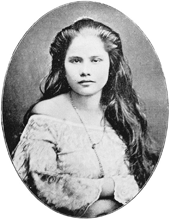 A Manila Girl (c. 1900, Philippines)